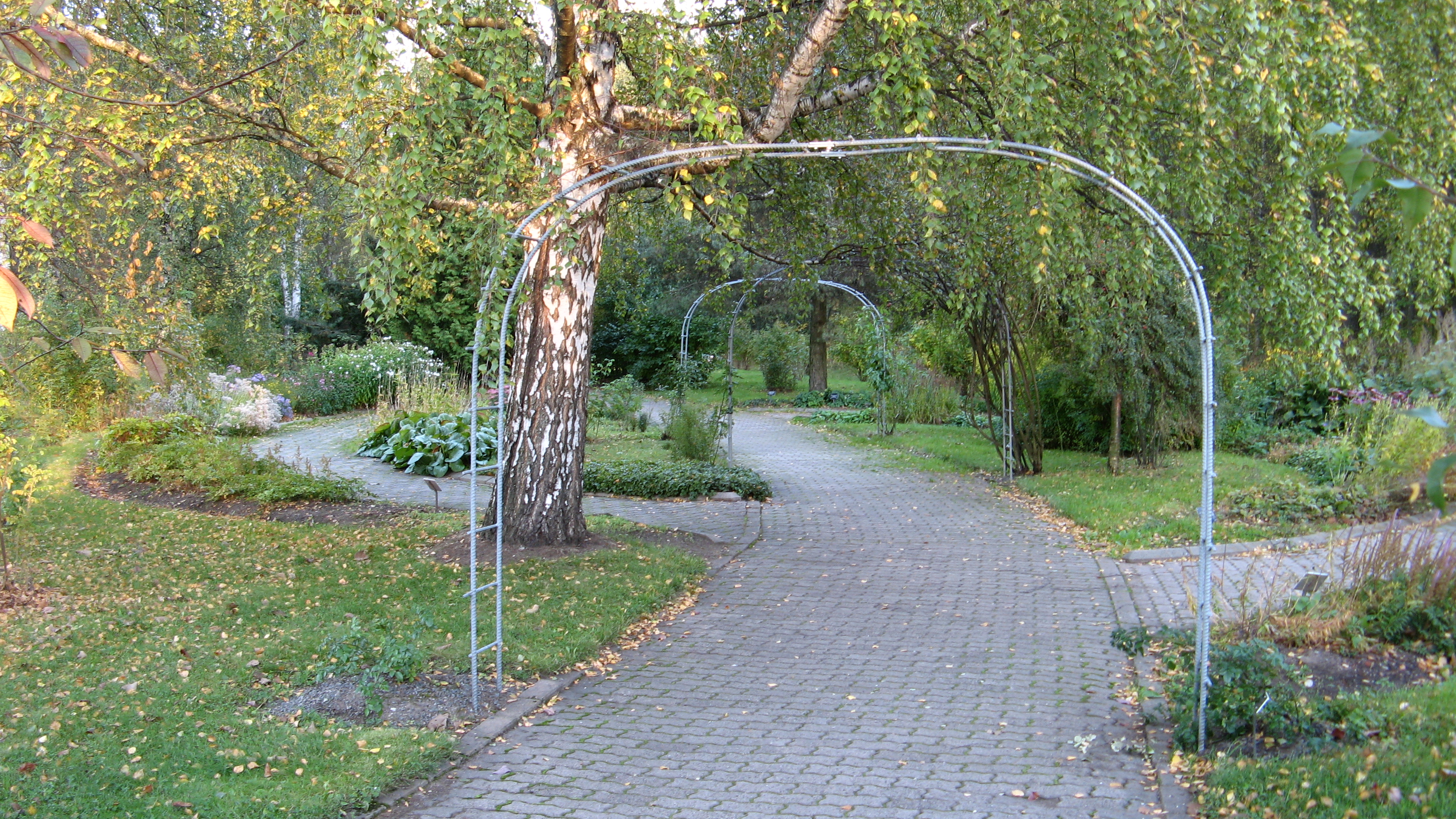 The park Tähkäpuisto (Axparken) in Turku.